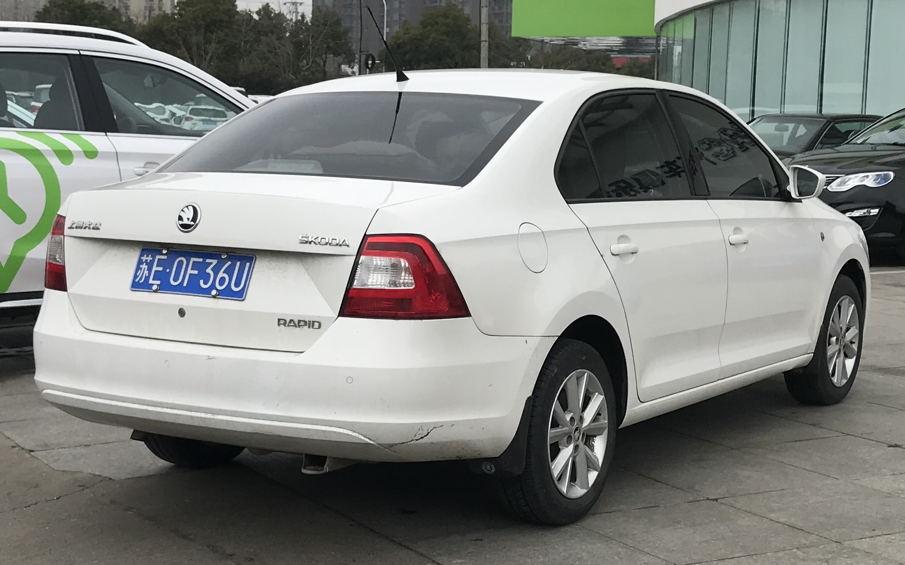 China-made Skoda Rapid sedan rear.